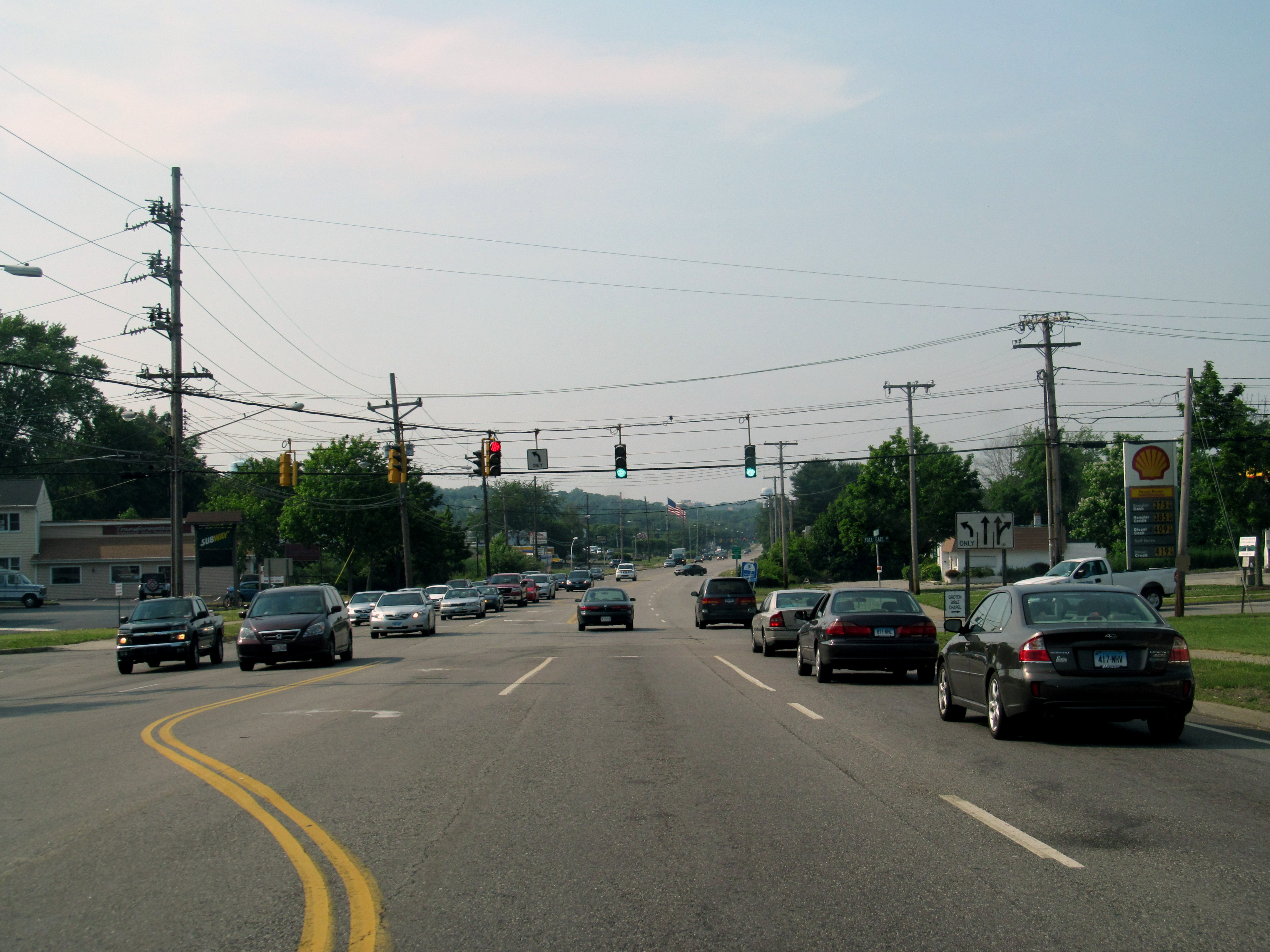 Route 12 northbound at the Toll Gate Road / Walker Hill Road intersection in Groton, Connecticut